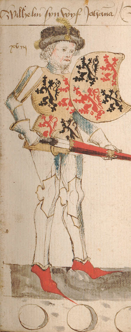 William III, Count of Holland